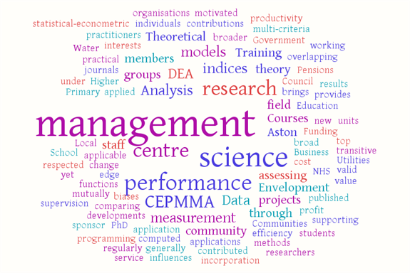 पोस्तेर - प्रबंध विज्ञान